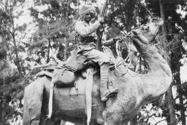 SINAI, PALESTINE, C. 1915. INDIAN CAMELEER, WITH FULL EQUIPMENT, ON CAMEL.